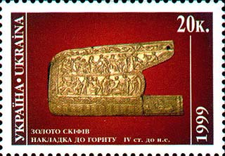 Stamp of Ukraine